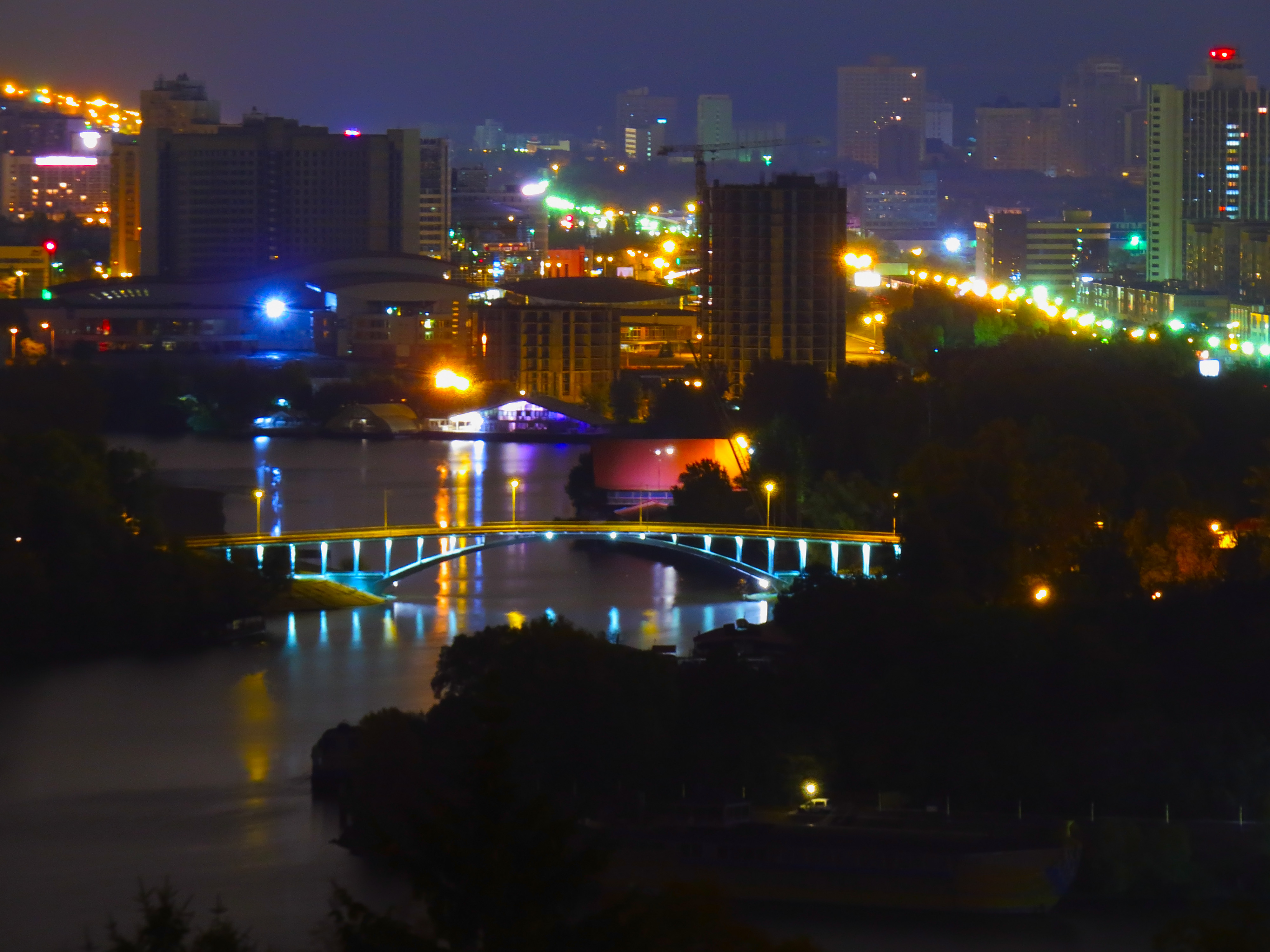 Kiev, view from Dnieper Steeps park (near Askold`s Grave) to the Left-bank neighbourhoods